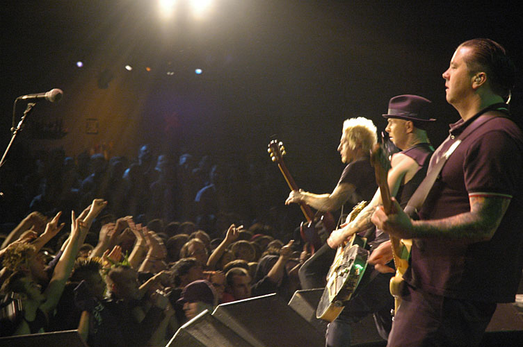 Rancid at the Warfield in San Francisco